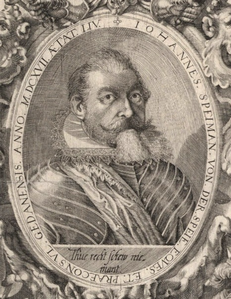 Johann Speimann, mayor of Gdańsk